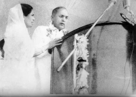 Dr. Ambedkar and Savita Ambedkar during Deeksha.